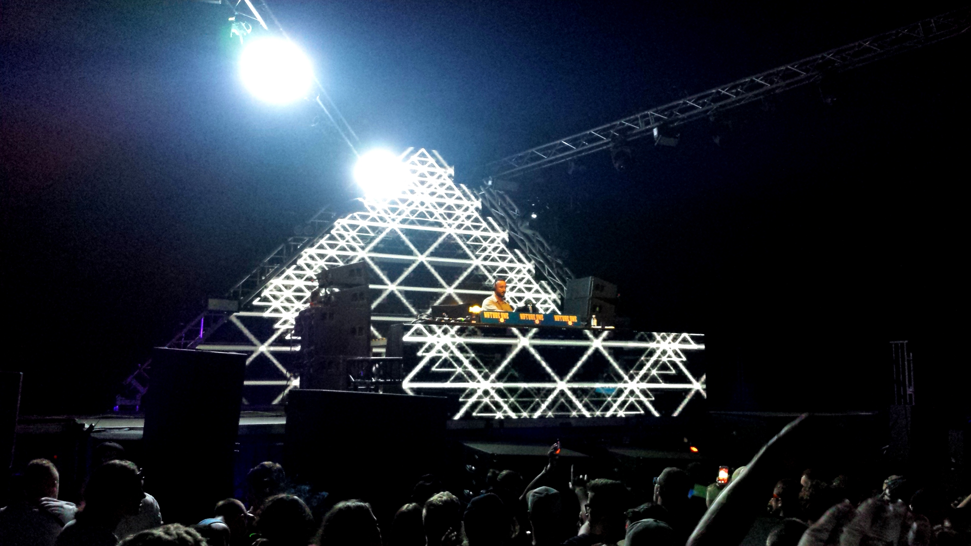 Joseph Capriati playing his Set - Century Circus - Nature One 2018, 4th. August